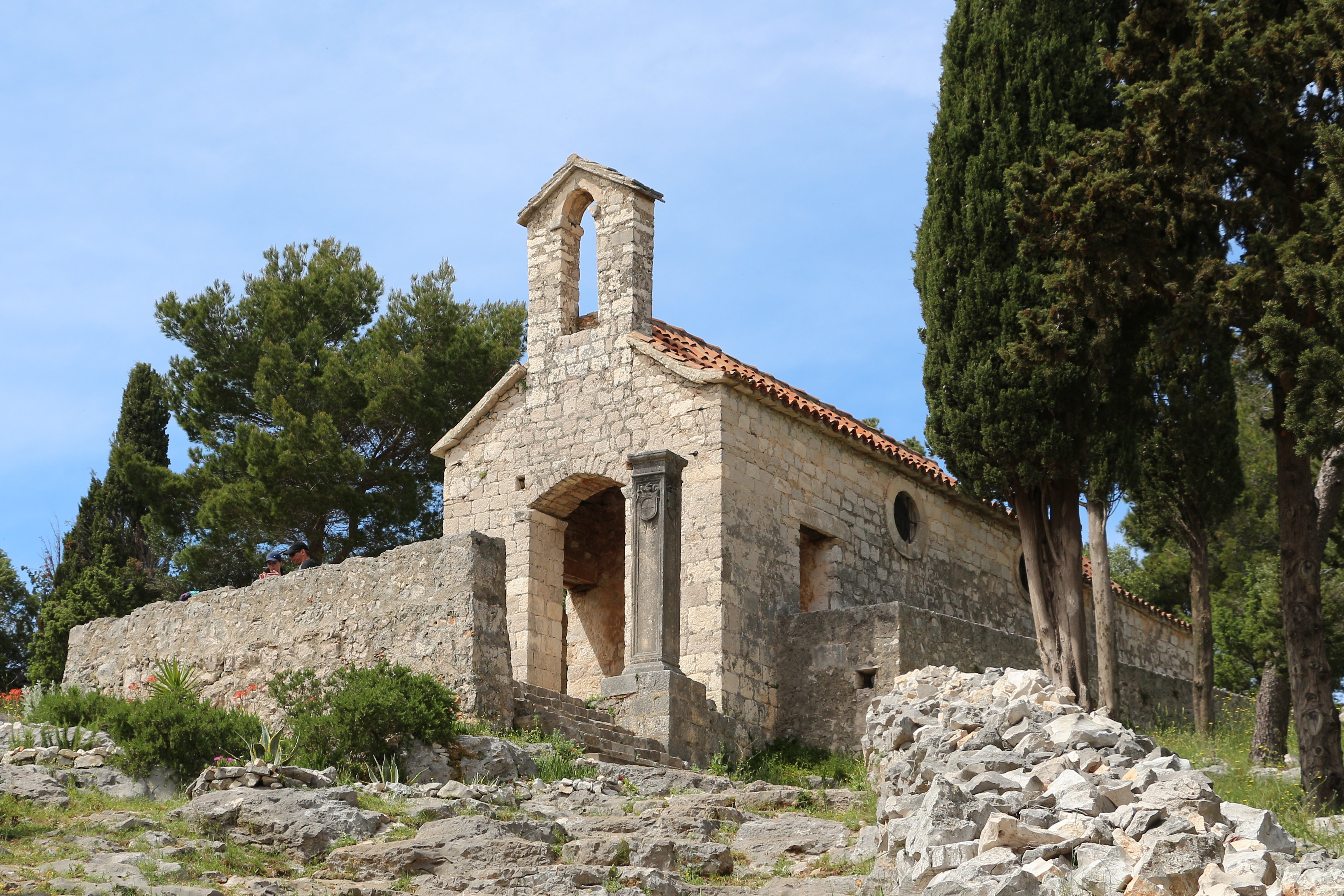 Church of Our Lady of Kruvenica, Hvar, Croatia